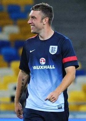 Rickie Lambert 2013